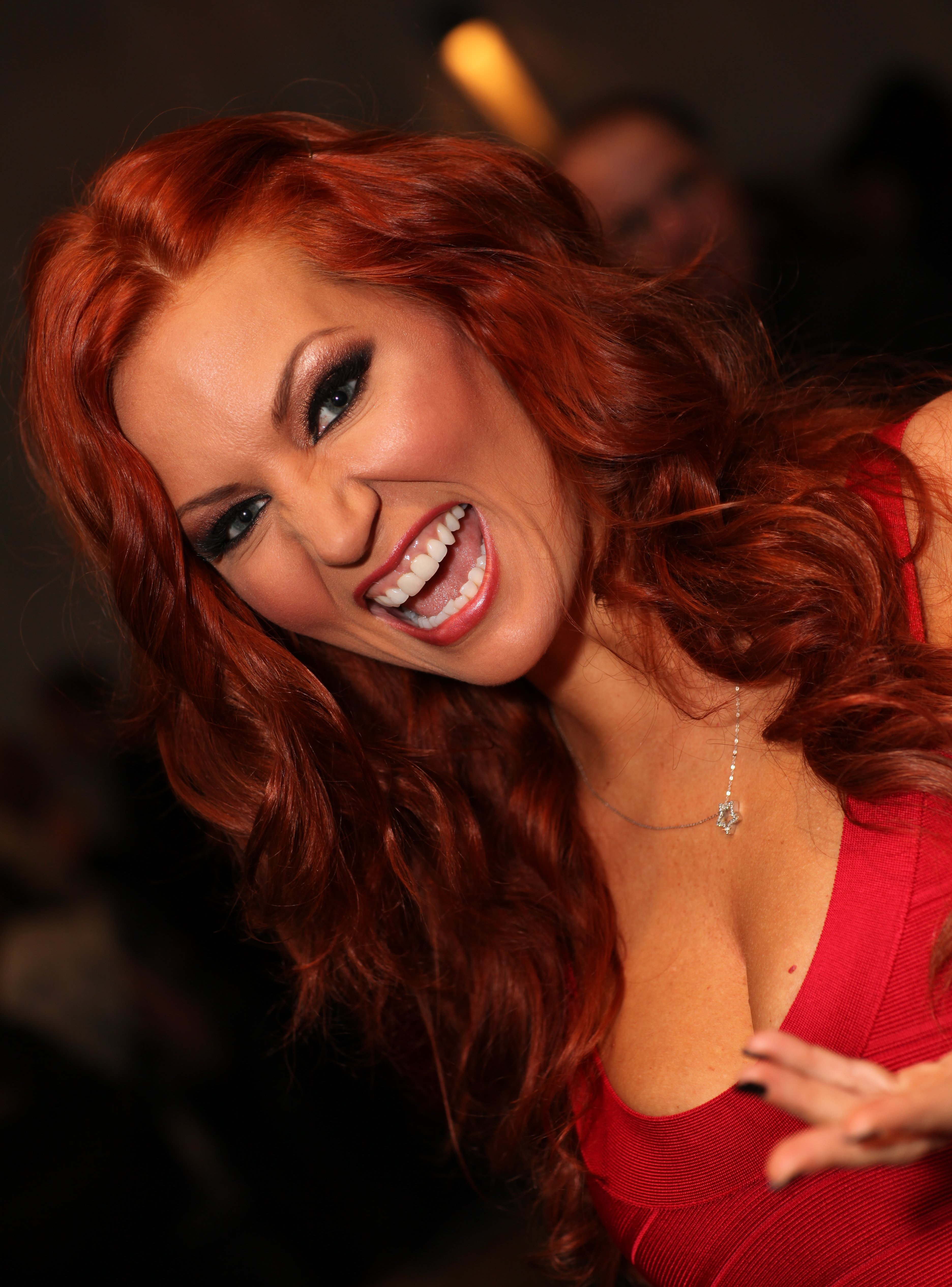 American stand-up comedian April Macie. Photos from the 2013 AVN Expo & AVN Awards held at the at the Hard Rock Hotel & Casino in Las Vegas. Please provide photographer credit when using, tweeting, etc... Photo by Michael Dorausch This photo is licensed under a Creative Commons license. If you use this photo within the terms of the license or make special arrangements to use the photo, please list the photo credit as "Michael Dorausch" and link the credit to .